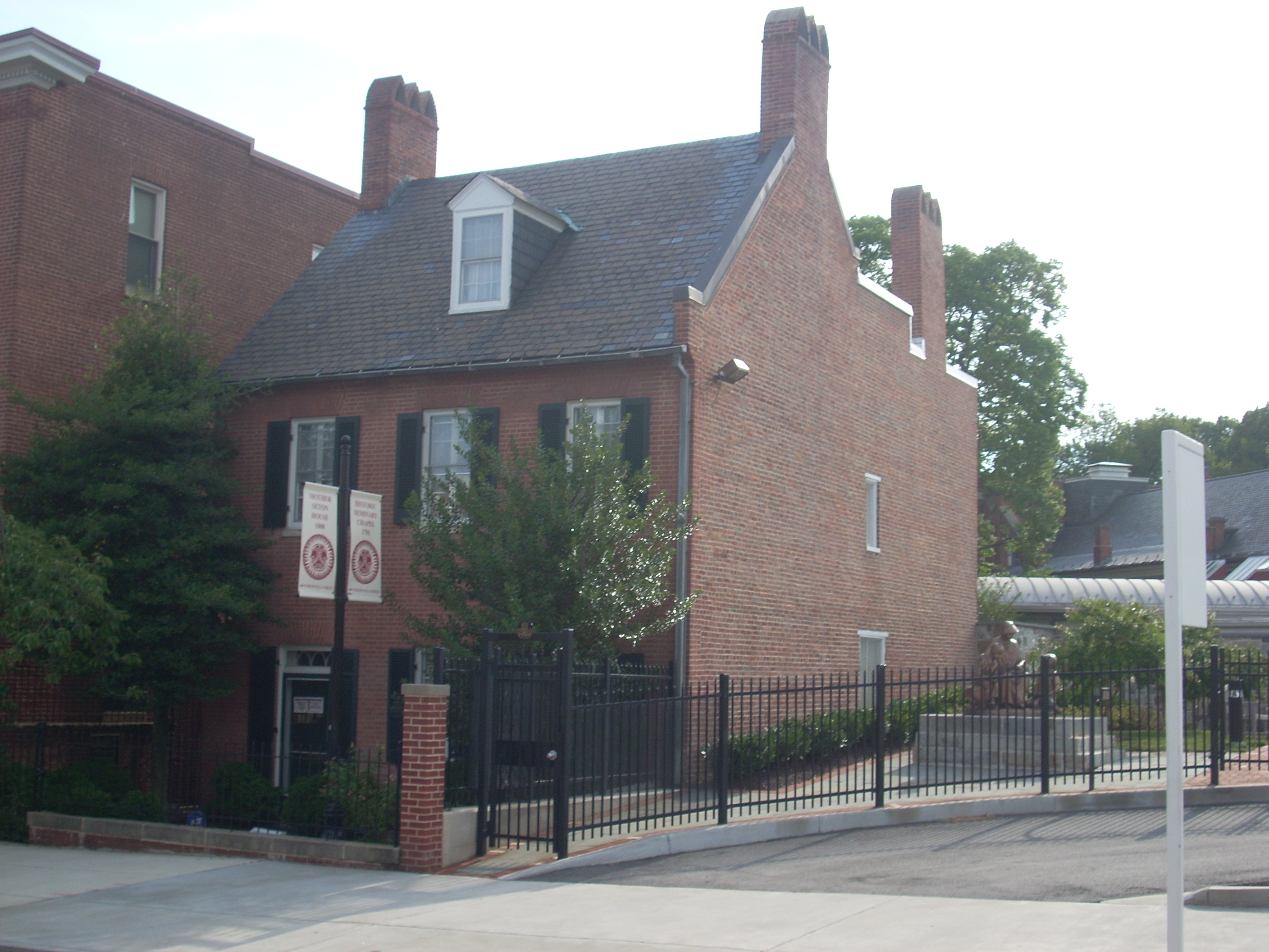 Mother Seton House, 600 N. Paca St., Baltimore City, Maryland Object location39° 17′ 44″ N, 76° 37′ 23″ W